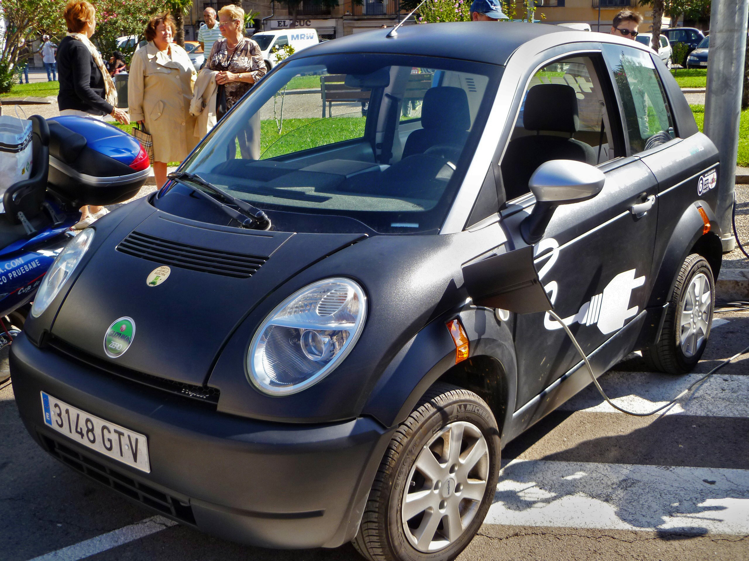 An electrical-powered car; Girona, Spain